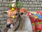 Decorated bullfor pongal